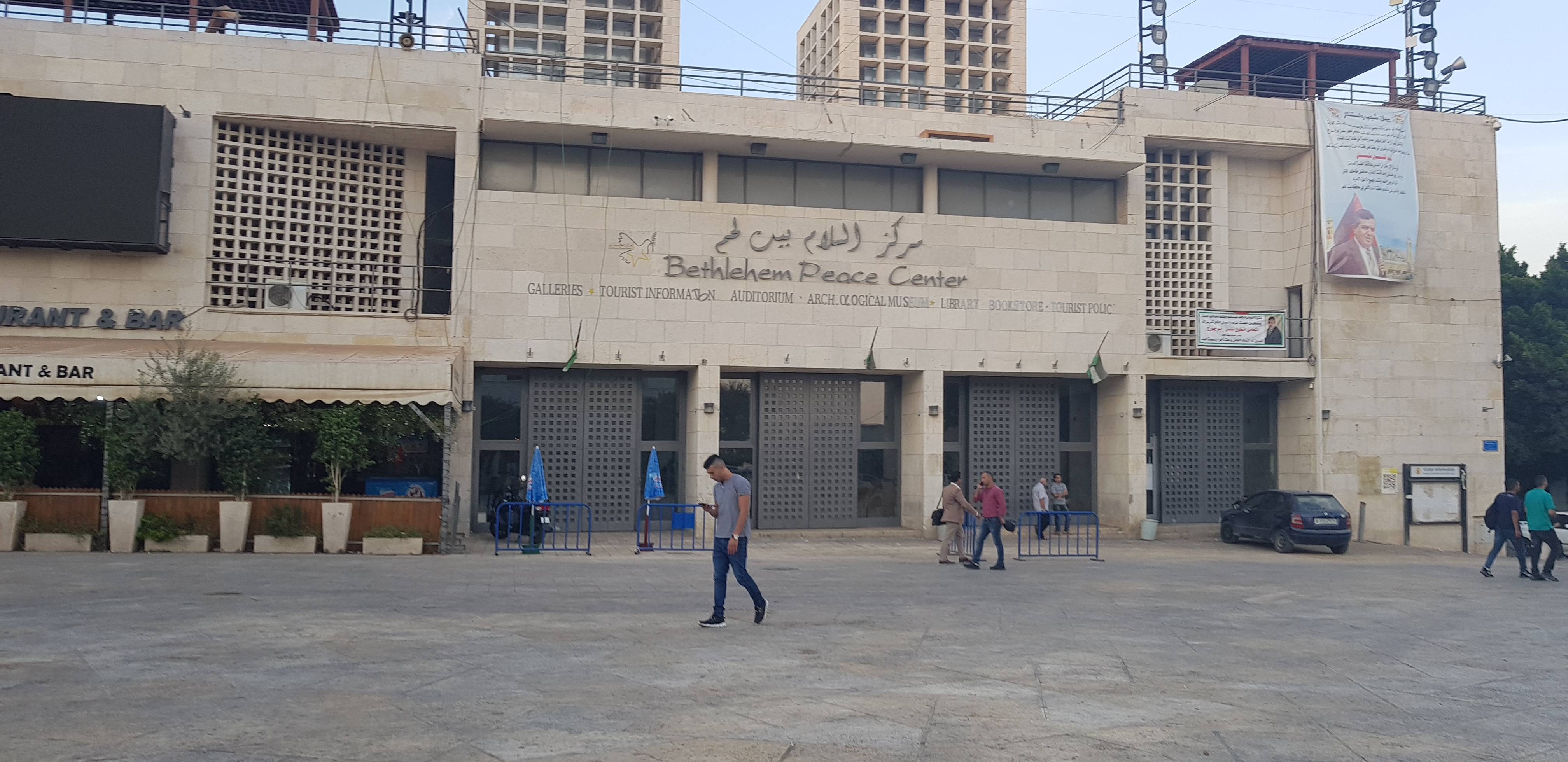 Peace Center - Nativity Square - Bethlehem - October 2018